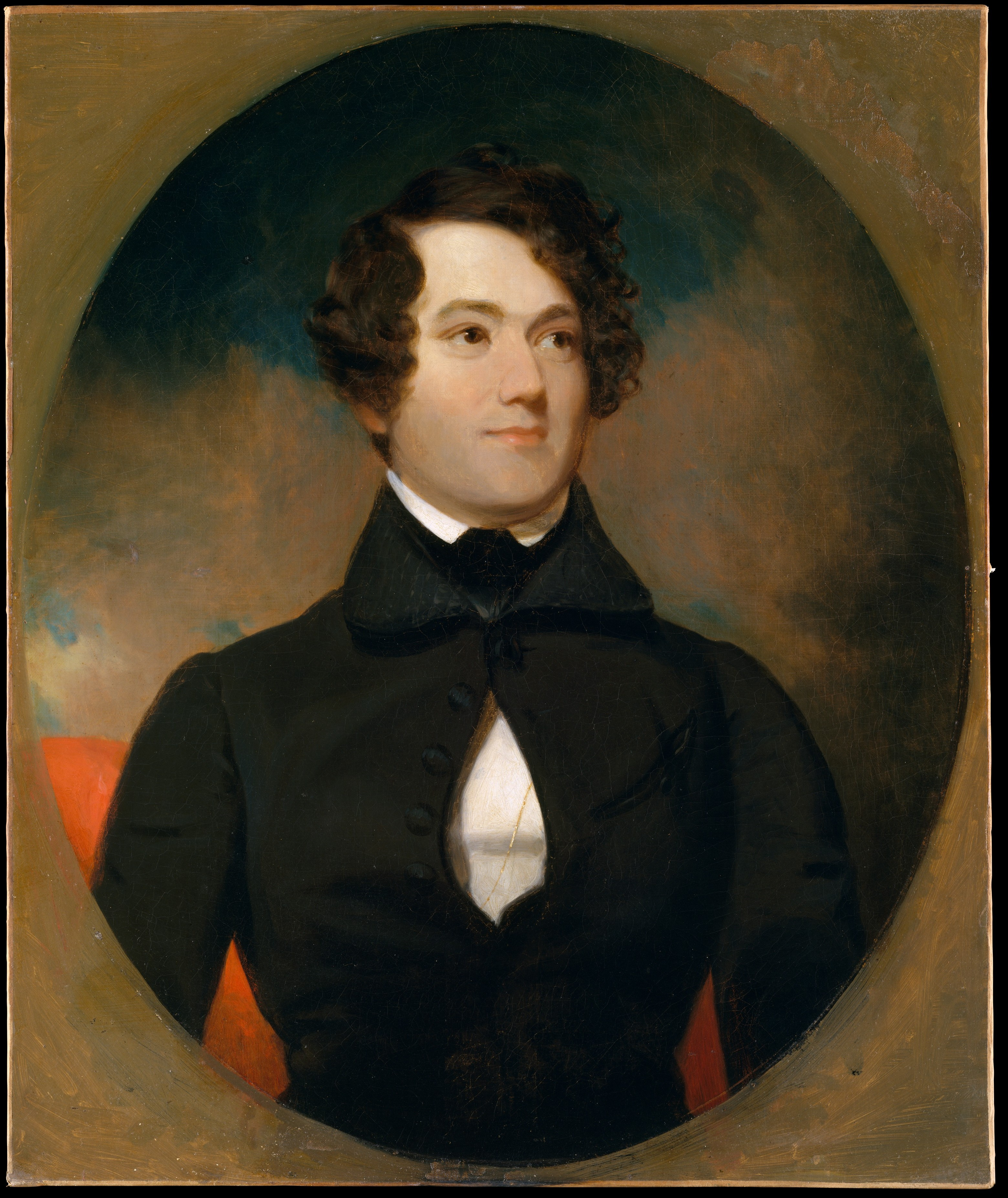 Henry G. Stebbins Artist: Henry Inman (American, Utica, New York 1801–1846 New York) Date: 1838 Medium: Oil on canvas Dimensions: 30 x 24 in. (76.2 x 61 cm) Classification: Paintings Credit Line: Bequest of Josephine S. Stebbins, 2000